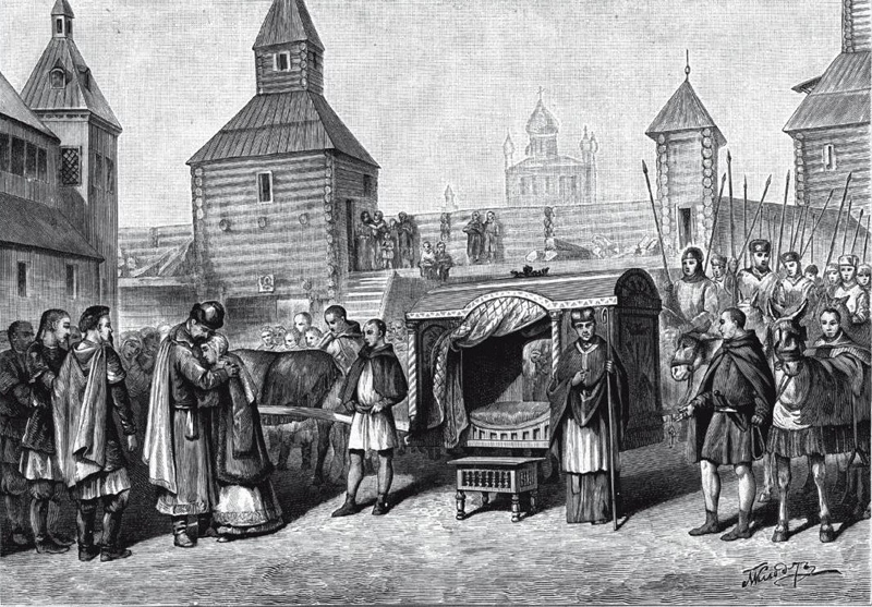 Princess Anna, daughter of grand prince Yaroslav the Wise, leaves for France to marry king Henry I.